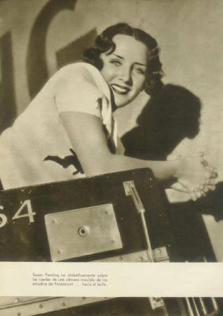 Publicity photo of Susan Fleming for Argentinean Magazine. (Printed in USA)